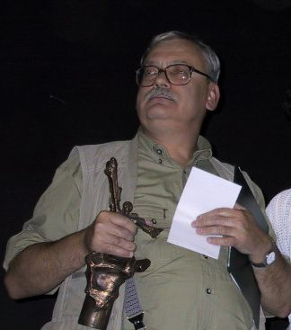 Andrzej Sapkowski, with the Janusz A. Zajdel Award at the Polcon 2003 science fiction and fantasy convention in Elbląg.